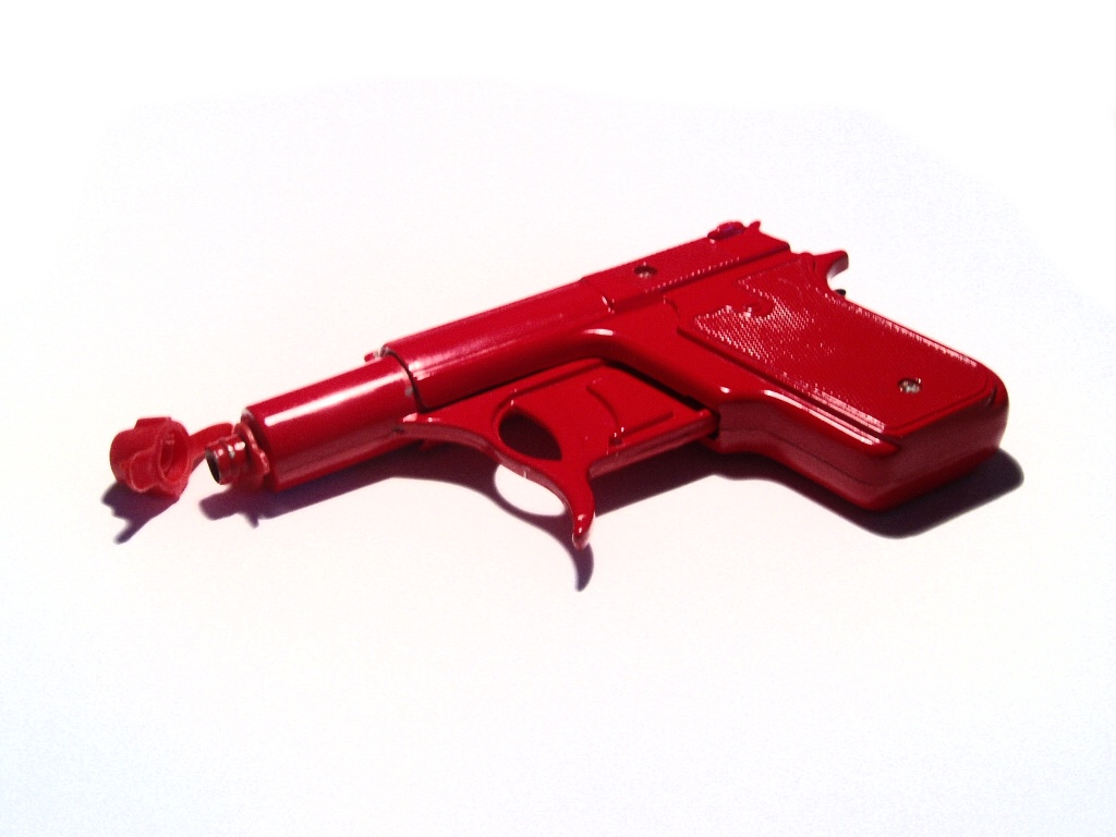 Spud Gun